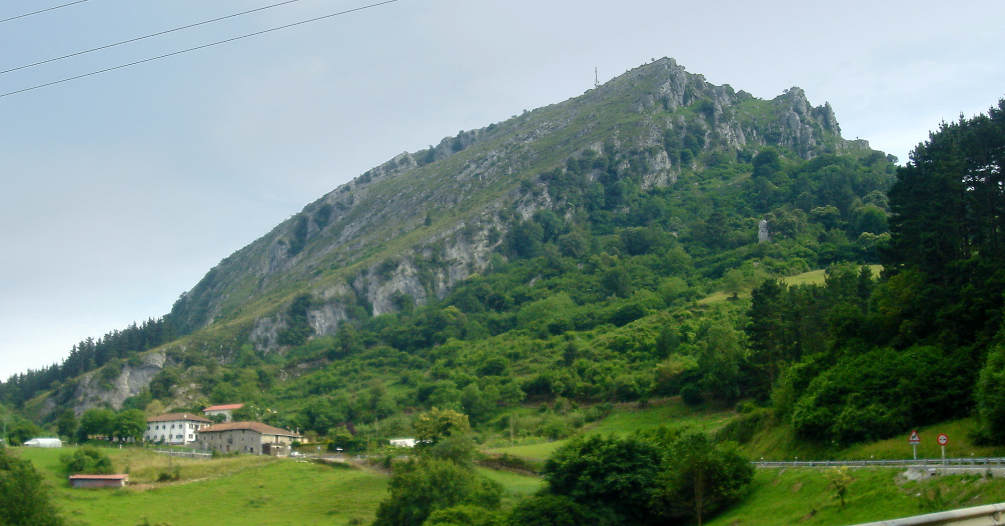 Urrekoatxa mountain (Dima, Biscay)